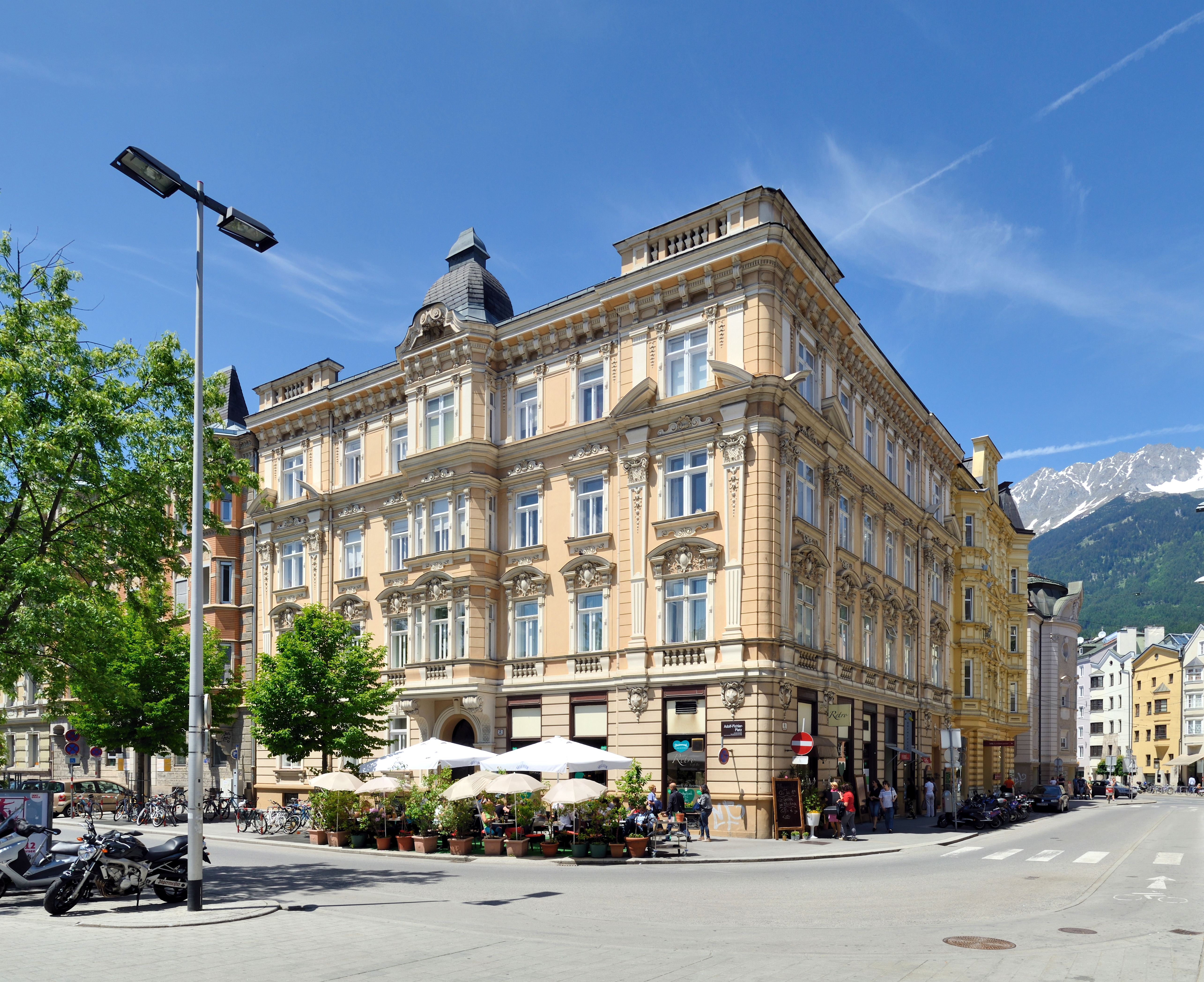 Innsbruck: Building Stainerstraße 4/Adolf-Pichler-Platz 2